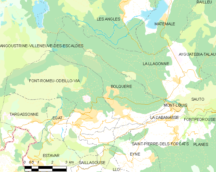 Map of French municipality